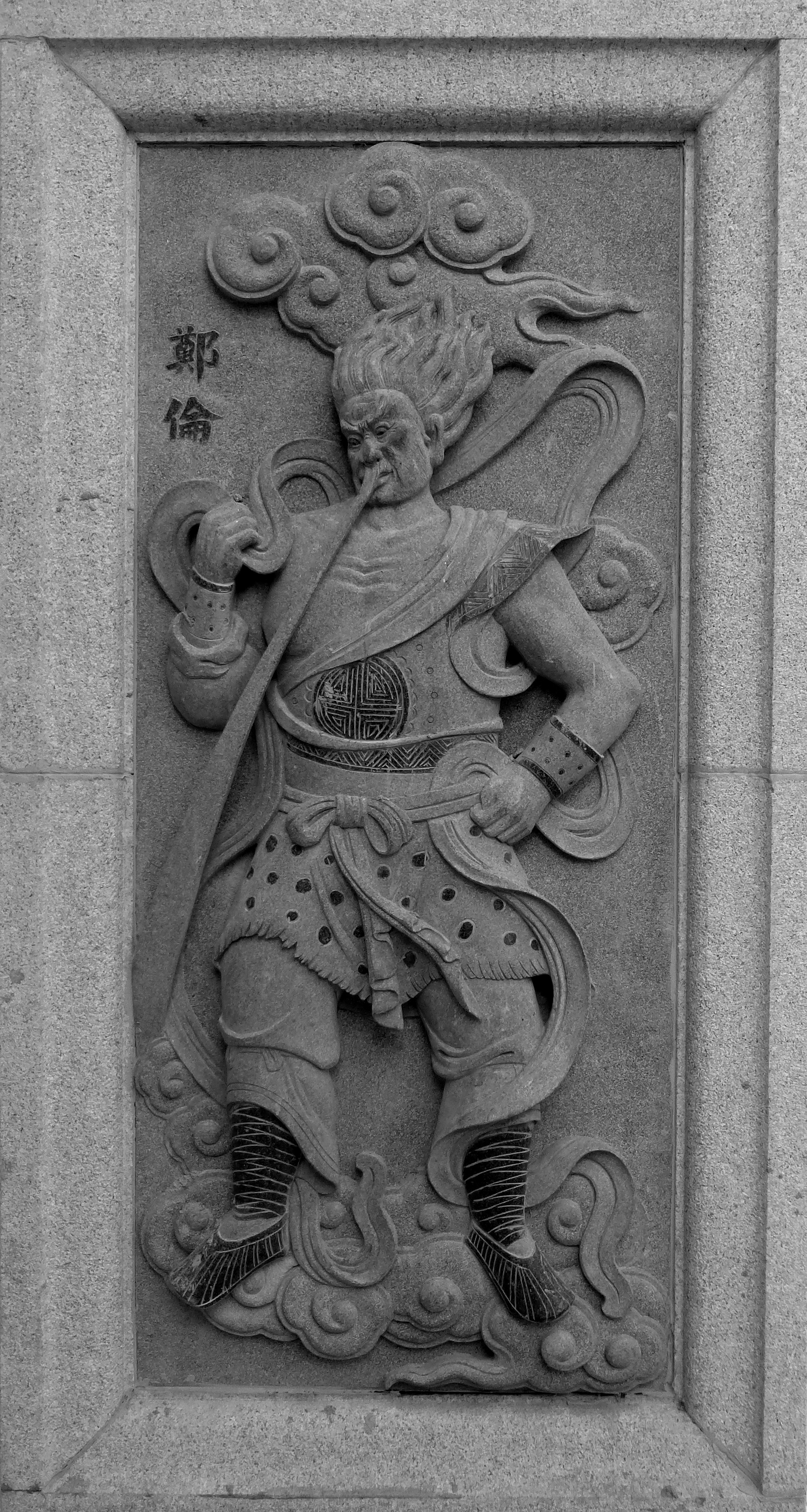 066 Zheng Lun, Investiture of the Gods at Ping Sien Si, Pasir Panjang, Perak, Malaysia Photograph from the Ping Sien Si Temple in Perak, Malaysia taken by Anandajoti.